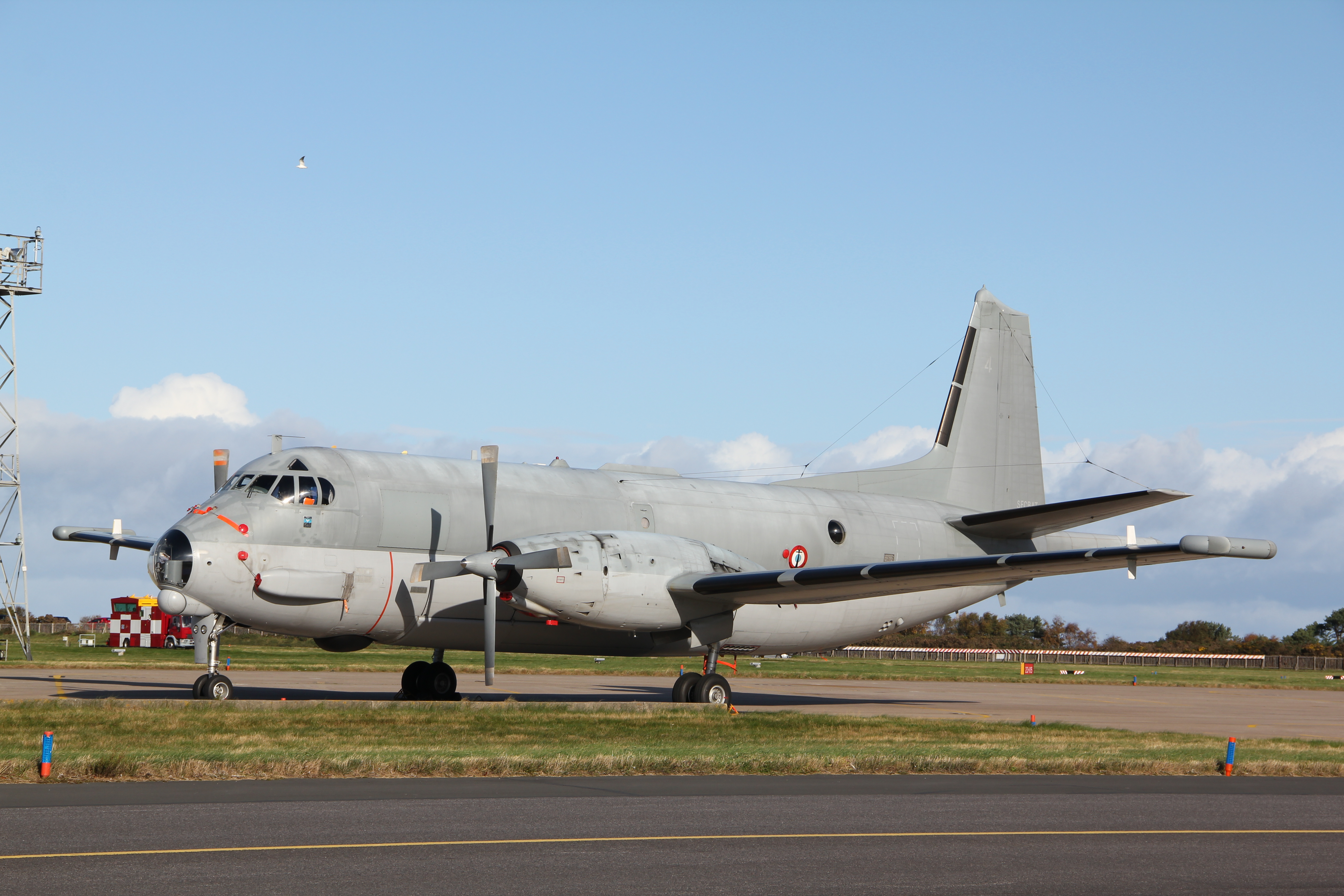 Also from Base Aérienne Navale Lann-Bihoué was this ATL 2 No. 4 of 23 Flottille. France has 25 of these and they are to be upgraded to Atlantique 3 standard.